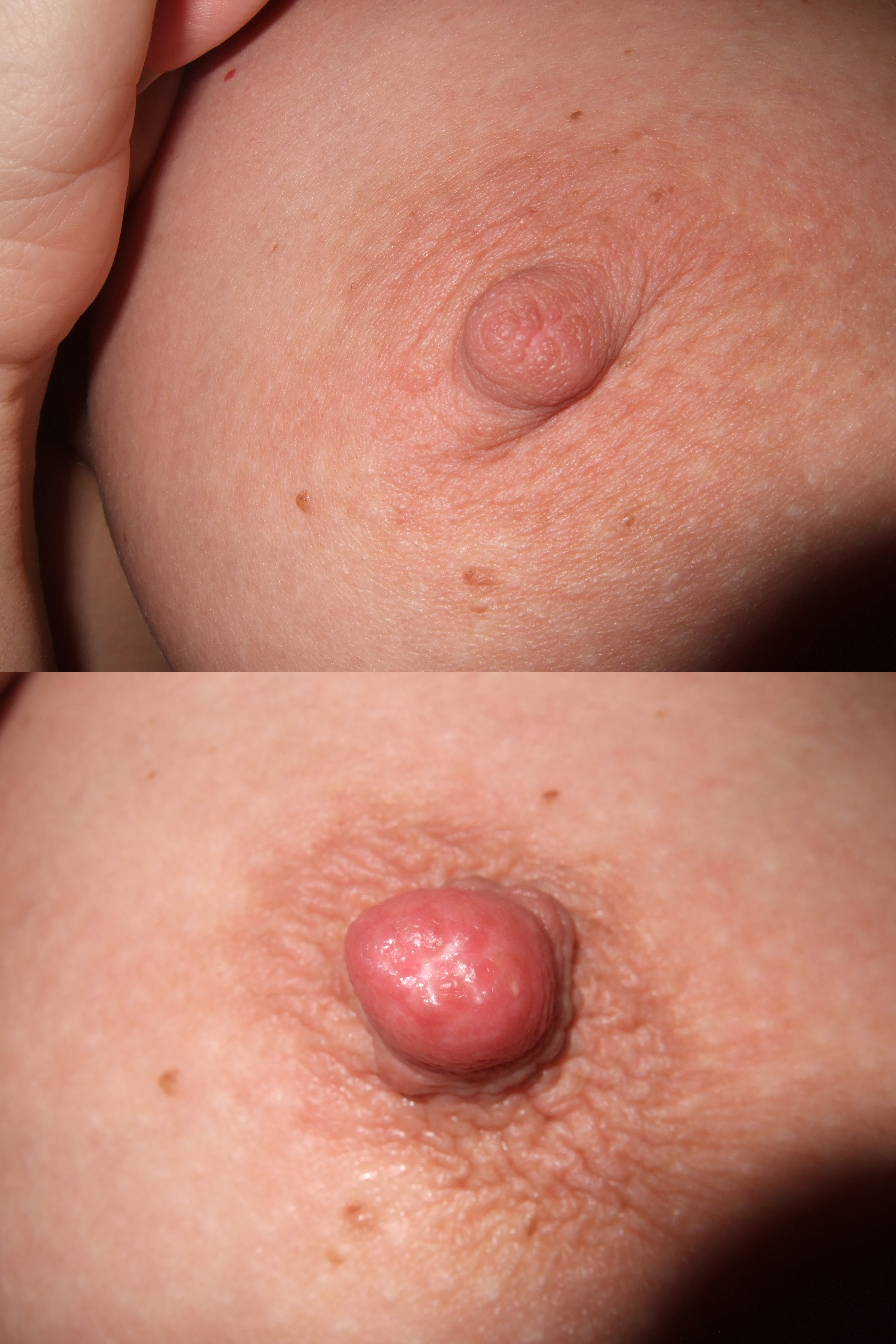 35 years old woman's breast. Above, areola and nipple. Below, the same breast, with contracted areola and erected nipple.